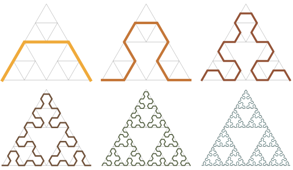 First six stages of fractal Sierpinski arrowhead curve